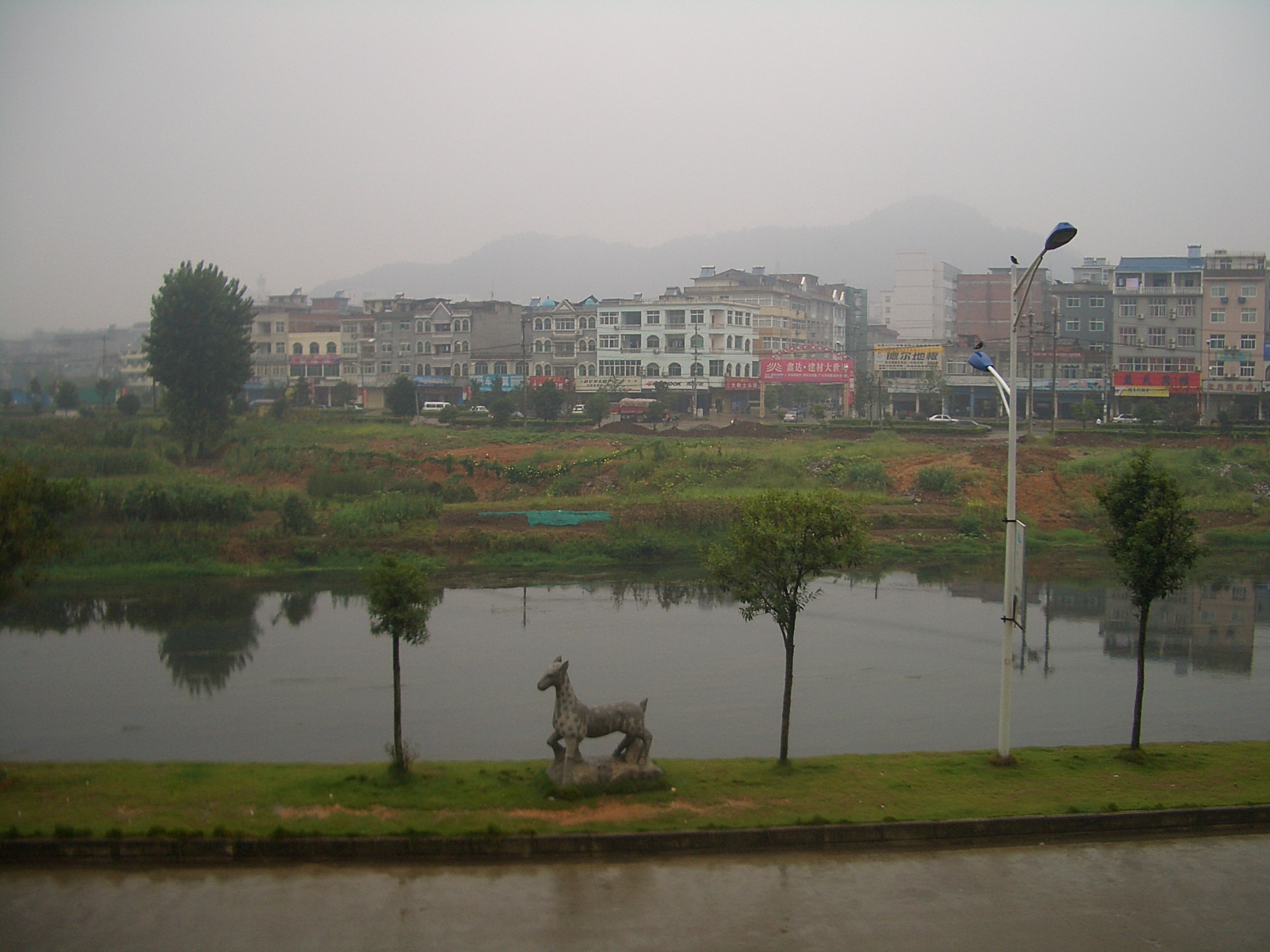 Downtown Tongyang Town, the county seat of Tongshan County, Hubei. The embankment of a tributary of the Fushui River is decorated with sculptures